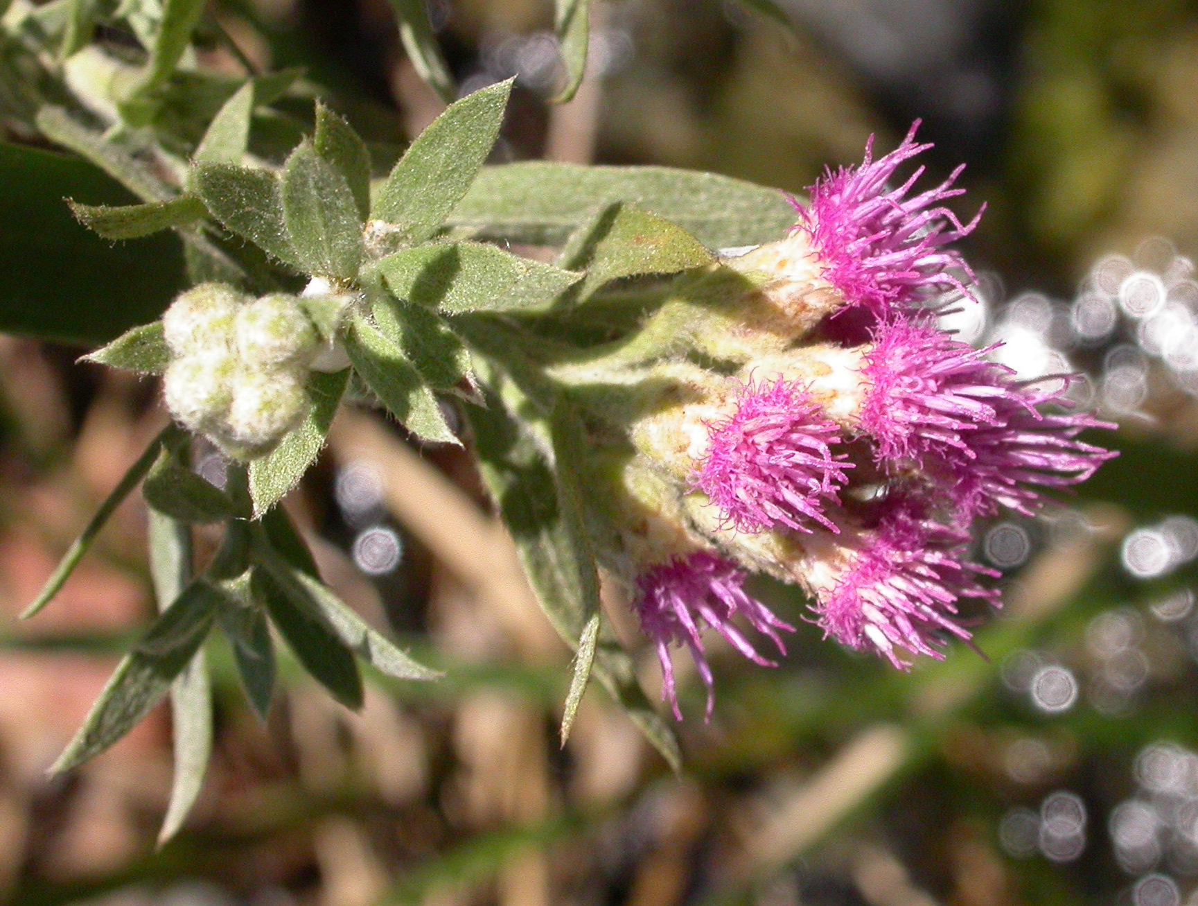 Photographed at BioTrek. Contributed and © by Curtis Clark. Licensed as noted.